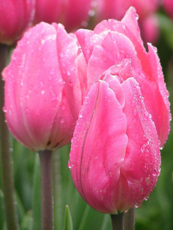 Pink tulips.